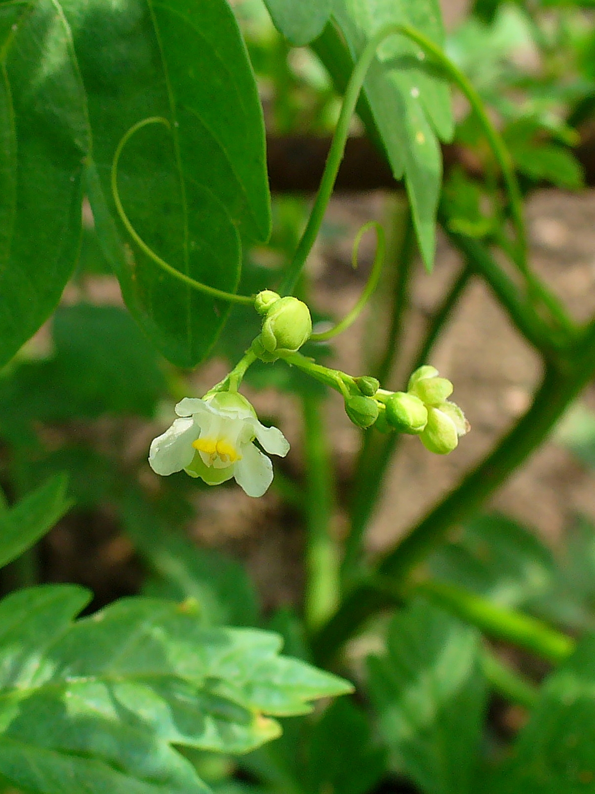 Cardiospermum halicacabum, Sapindaceae, Balloonvine, flower (diam. about 8mm); Stutensee, Germany. The blooming plants are used in homeopathy as remedy: Cardiospermum (Cardi-h.)